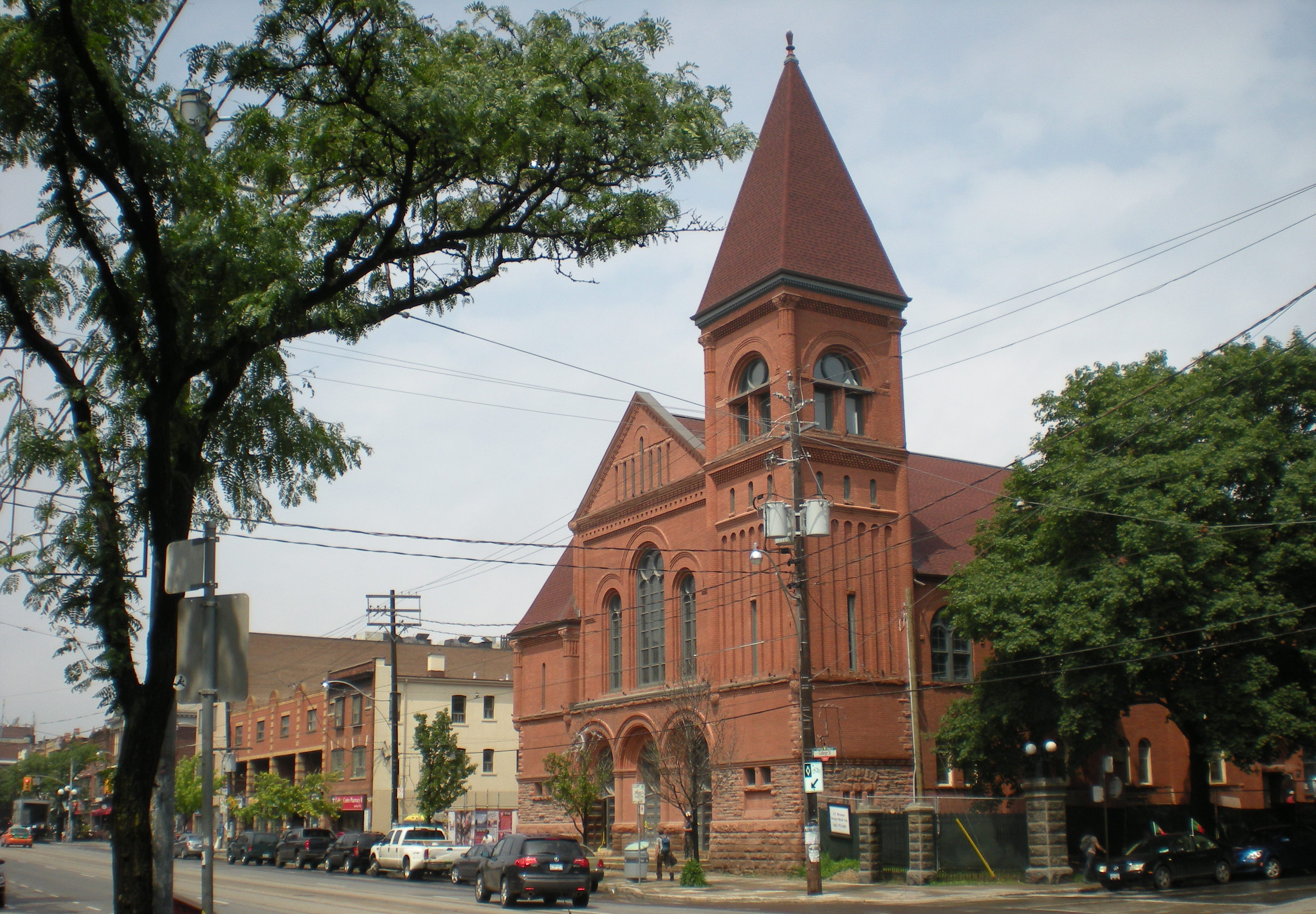 The Church at Palmerston Blvd. and College St Toronto